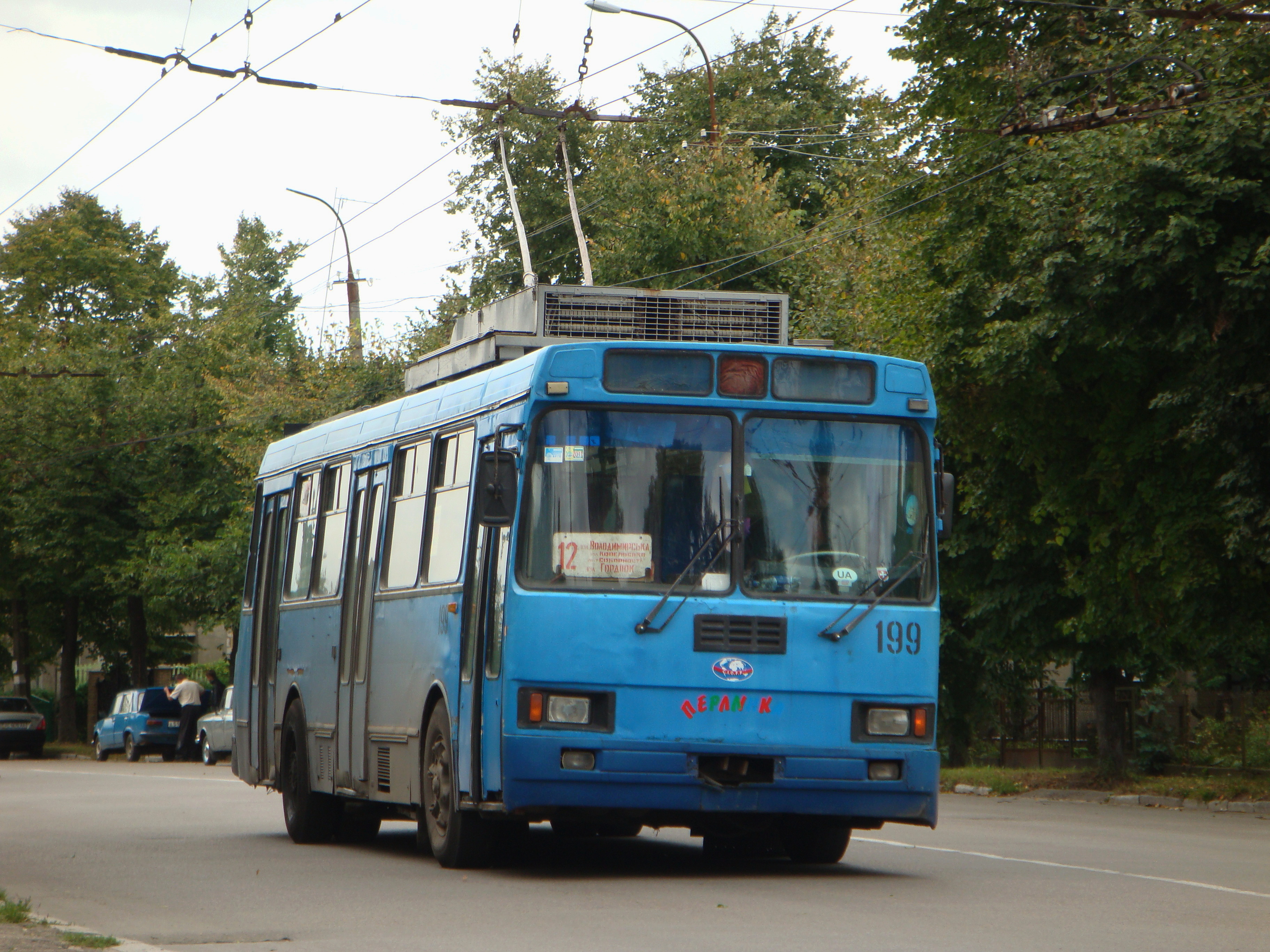 LAZ-52522 in Lutsk